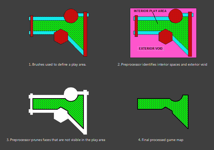 Quake map optimization process